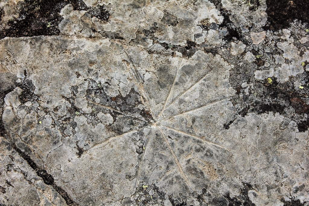 Tesito de los Cuchillos: Asterisco de líneas radiadas